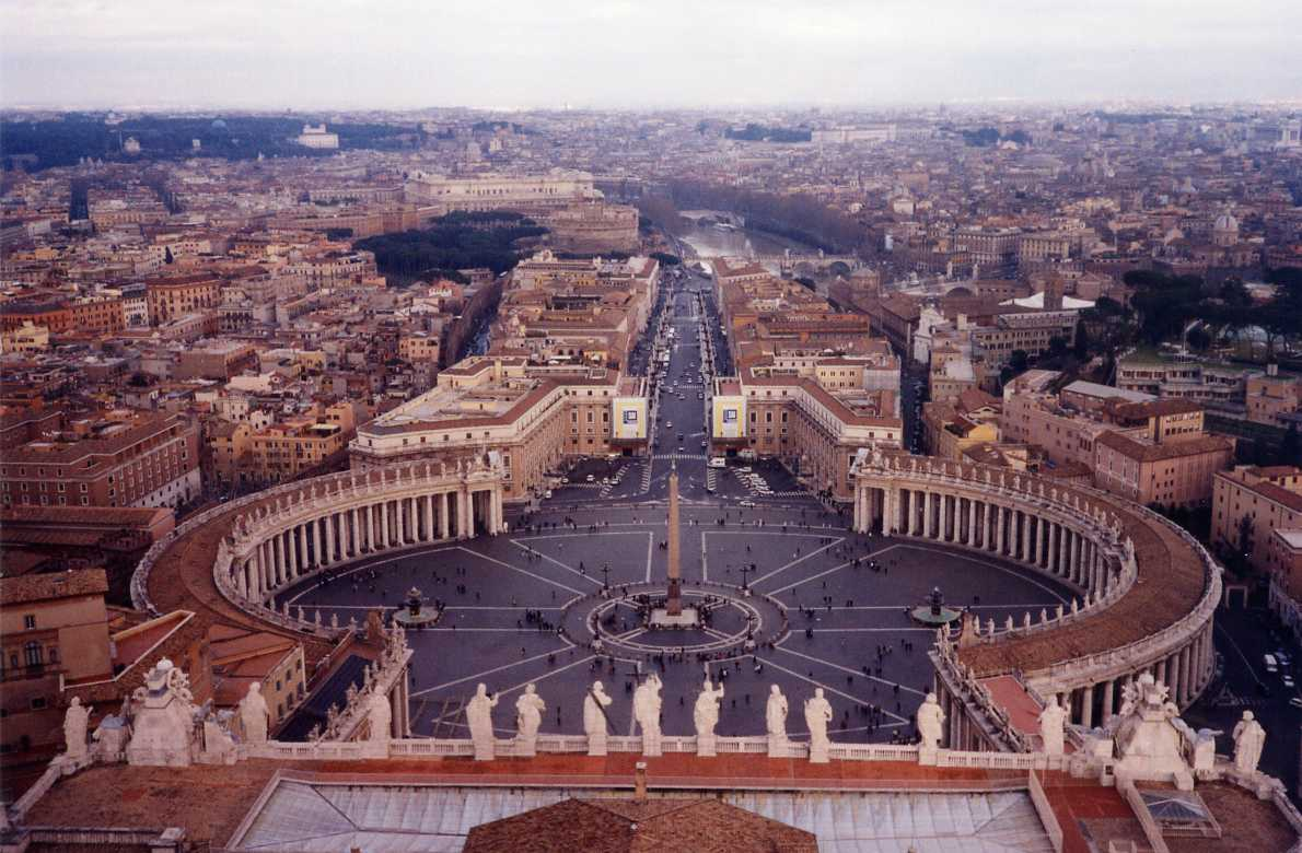 Wiew of Piazza San Pietro and Via della Conciliazione. Poho taken from the dome of Basilica di San Pietro. Composition of scanned photo